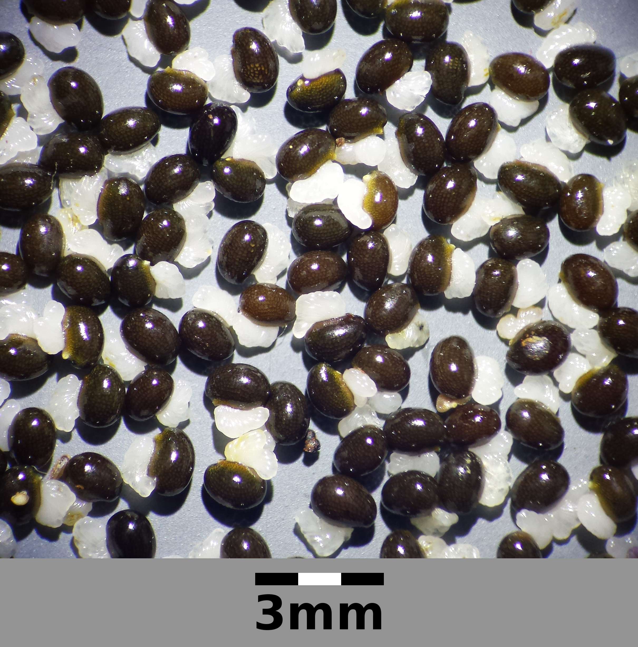 Seeds Taxon: Chelidonium majus (sensu Fischer et al. EfÖLS 2008 ISBN 978-3-85474-187-9) Location: Floridsdorf rail station, Vienna-Floridsdorf - ca. 160 m a.s.l. Habitat: ballast